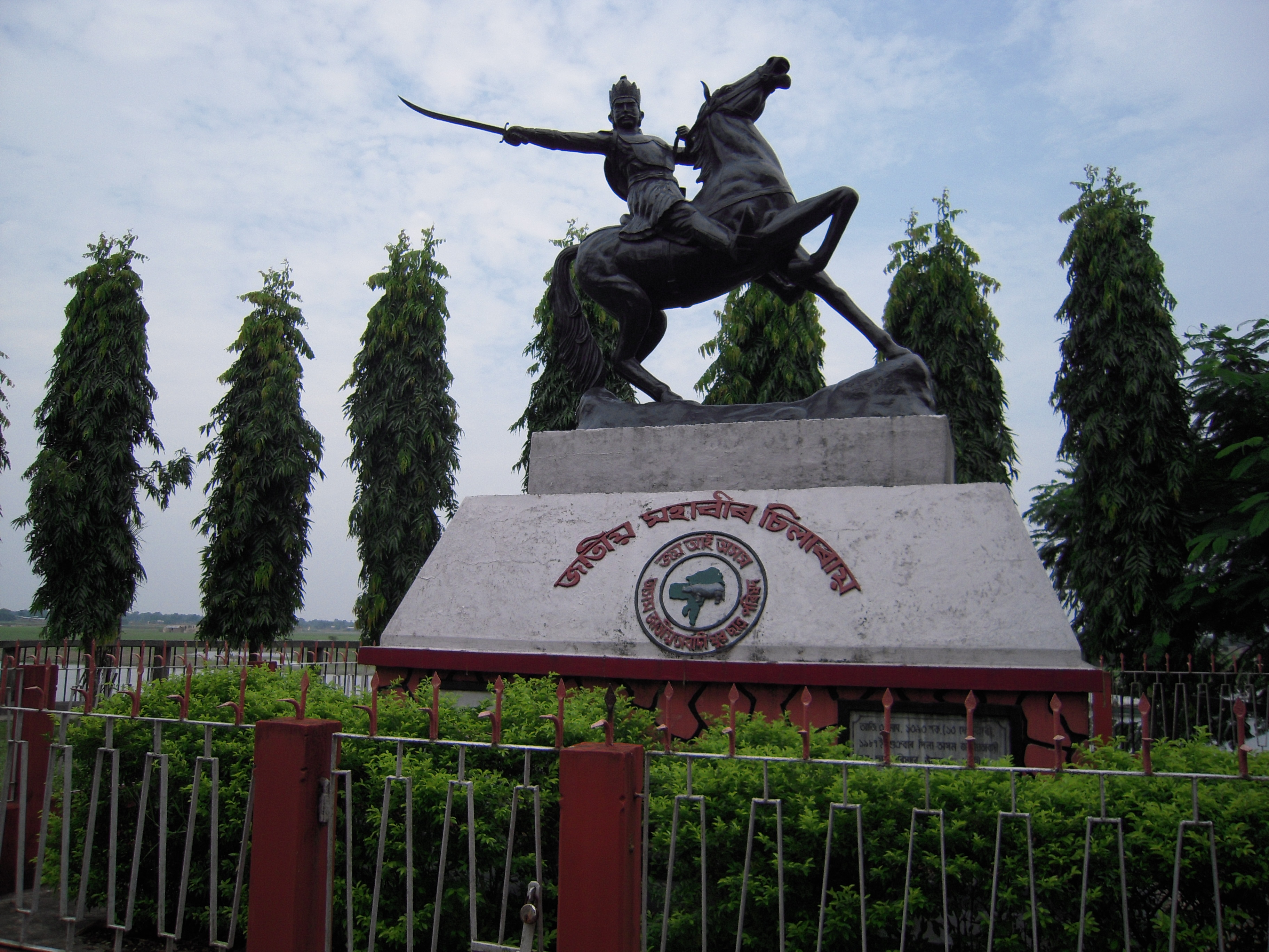 Chilarai Statue, Dhubri অসমীয়া: বীৰ চিলাৰায়ৰ প্ৰতিমূৰ্ত্তি, ধুবুৰী